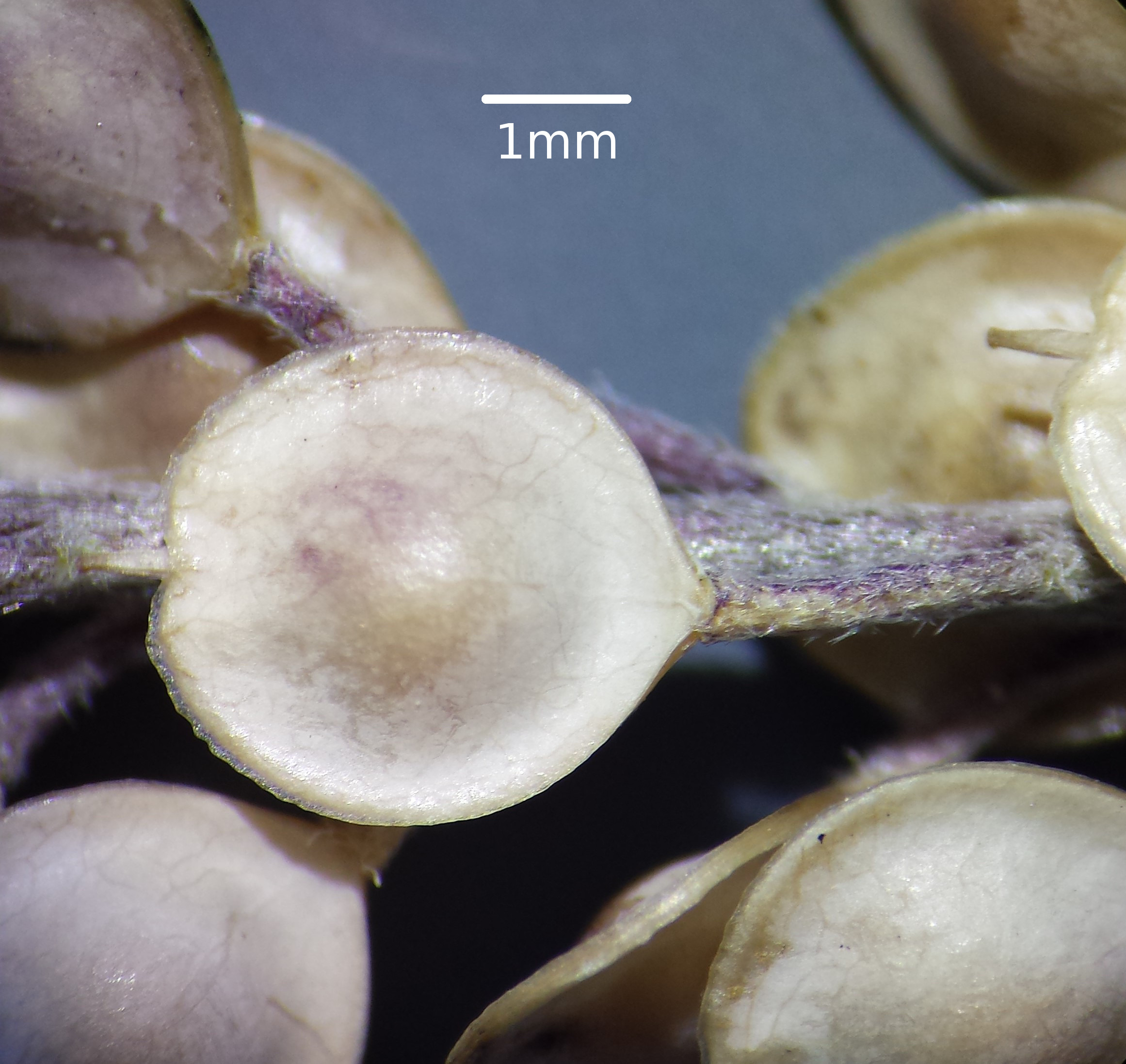 Fruit Taxon: Alyssum desertorum (sensu Fischer et al. EfÖLS 2008) Location: Deutsch-Wagram, district Gänserndorf, Lower Austria - ca. 165 m a.s.l. Habitat: railroad embankment